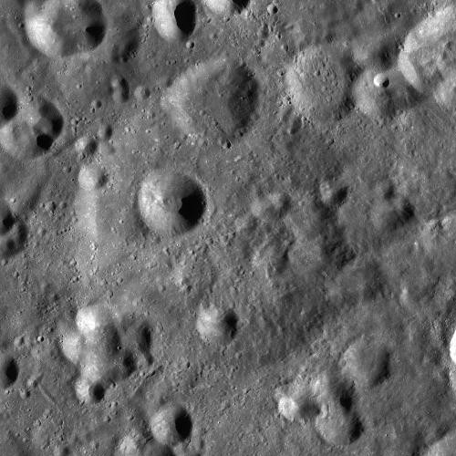 Shternberg crater, on the far side of the moon. Mosaic of LRO WAC images.